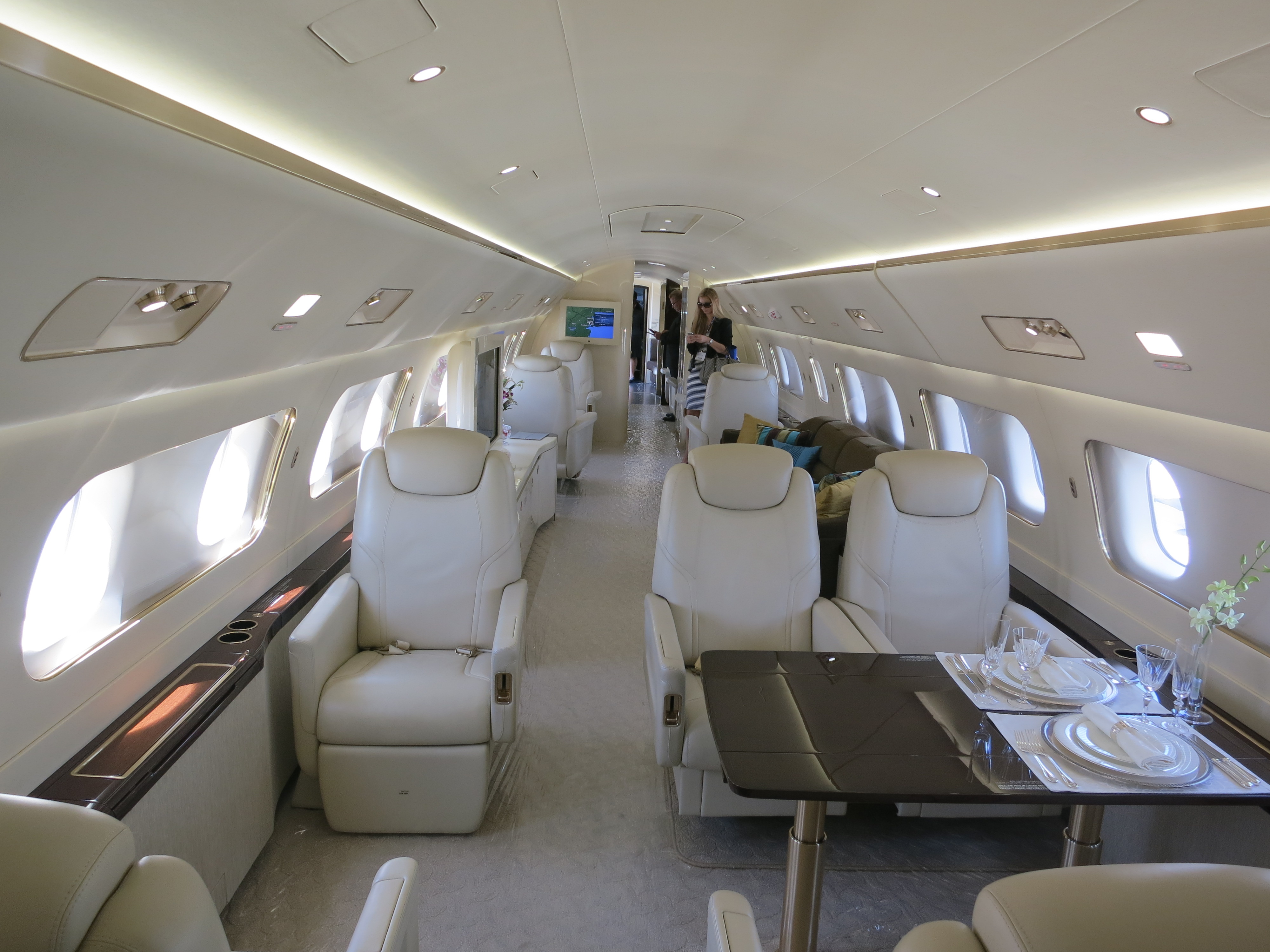 Embraer Lineage 1000 Interior of Middle Cabin with passengers